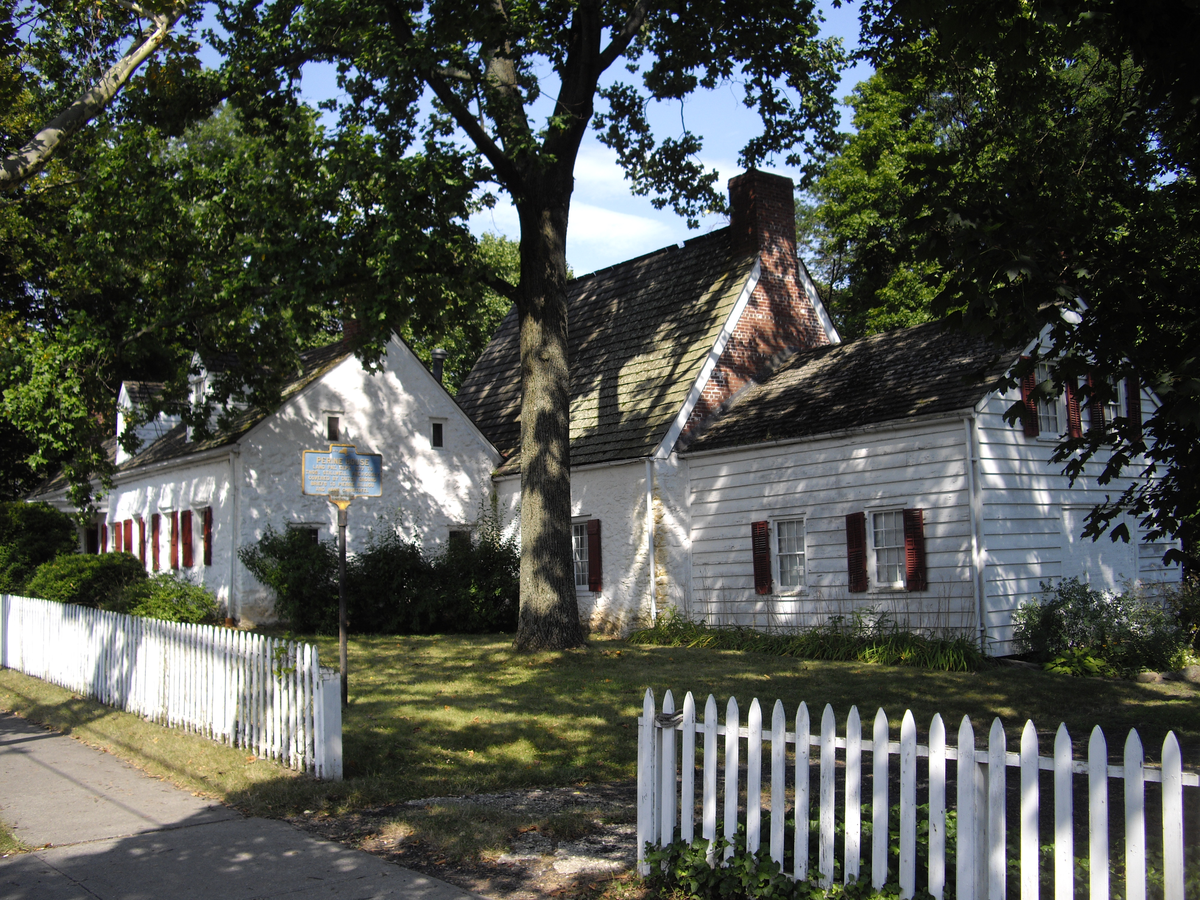 Billou-Stillwell-Perine House